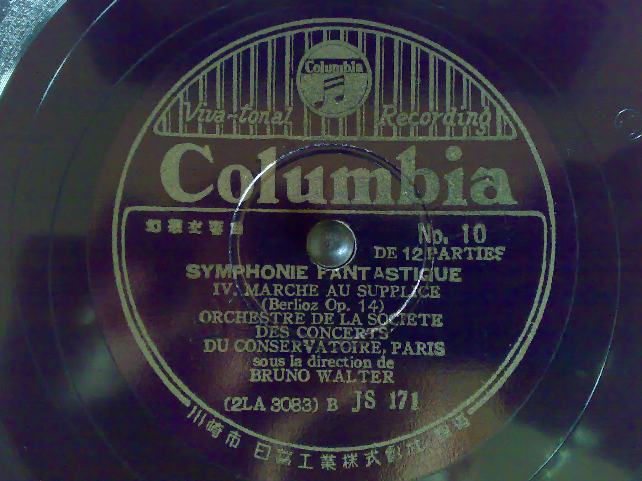 A label image in the "sudare" era of Japanese Columbia Records